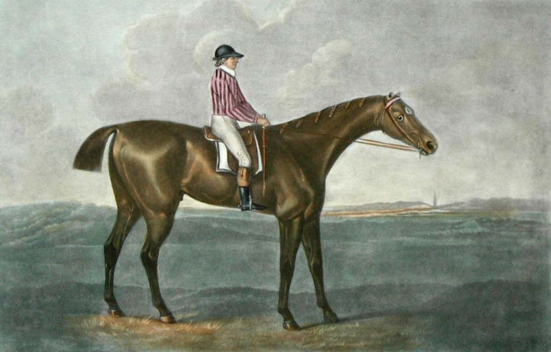 Skyscraper, the winner of the 1789 Epsom Derby.